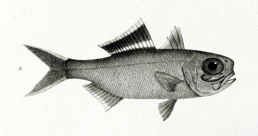 Anomalops katoptron (Bleeker, 1856) is the accept name, Anomalops palbebratus (non Boddaert, 1781) is misapplied synonym (Ref).